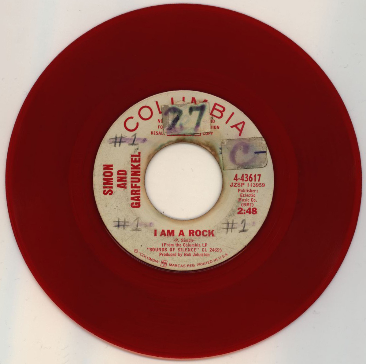 Image created June 2005 by Peter Clericuzio using a Lexmark X5100 series scanner. Permission granted by the creator to use and distribute this image via the accompanying license.